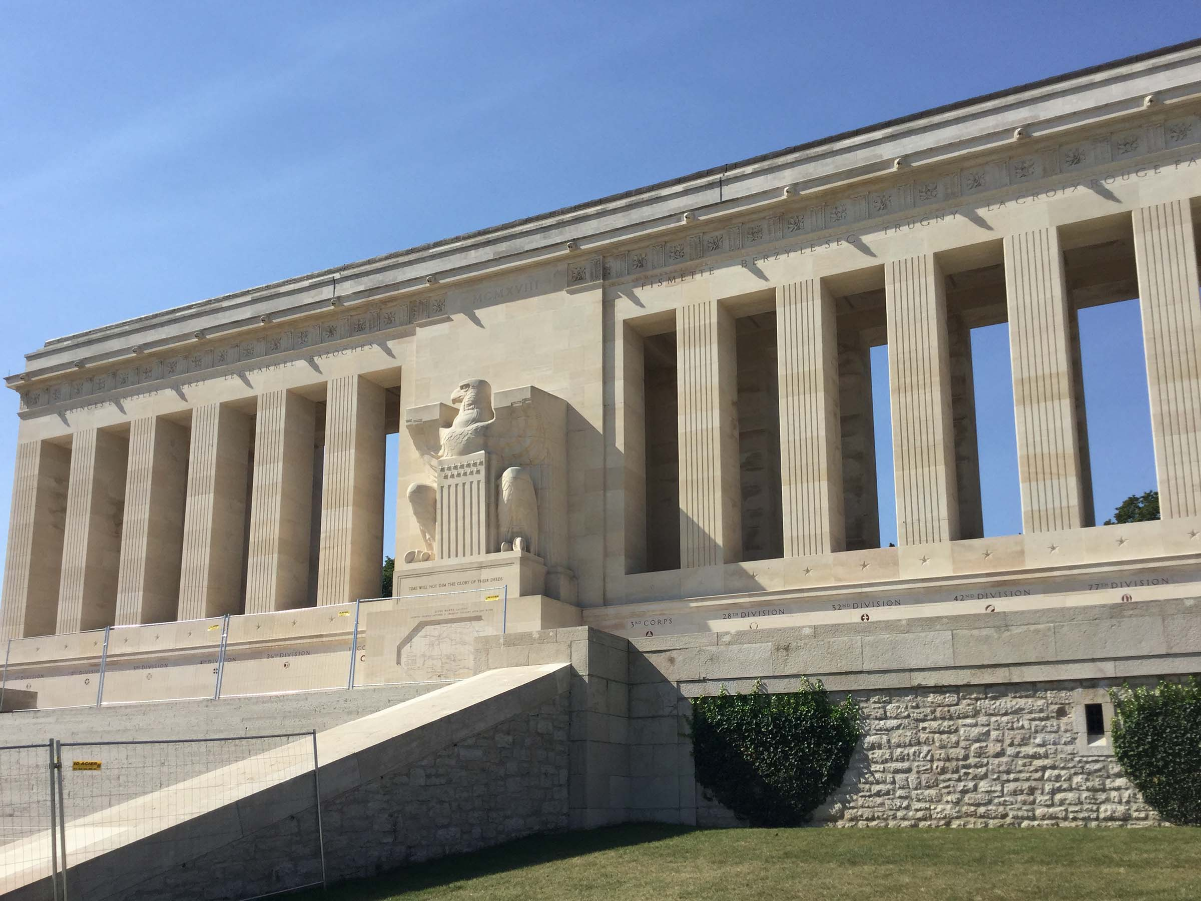 Chateau-Thierry-American-Monument, two miles west of Chateau-Thierry, France with a view of the Marne River valley.